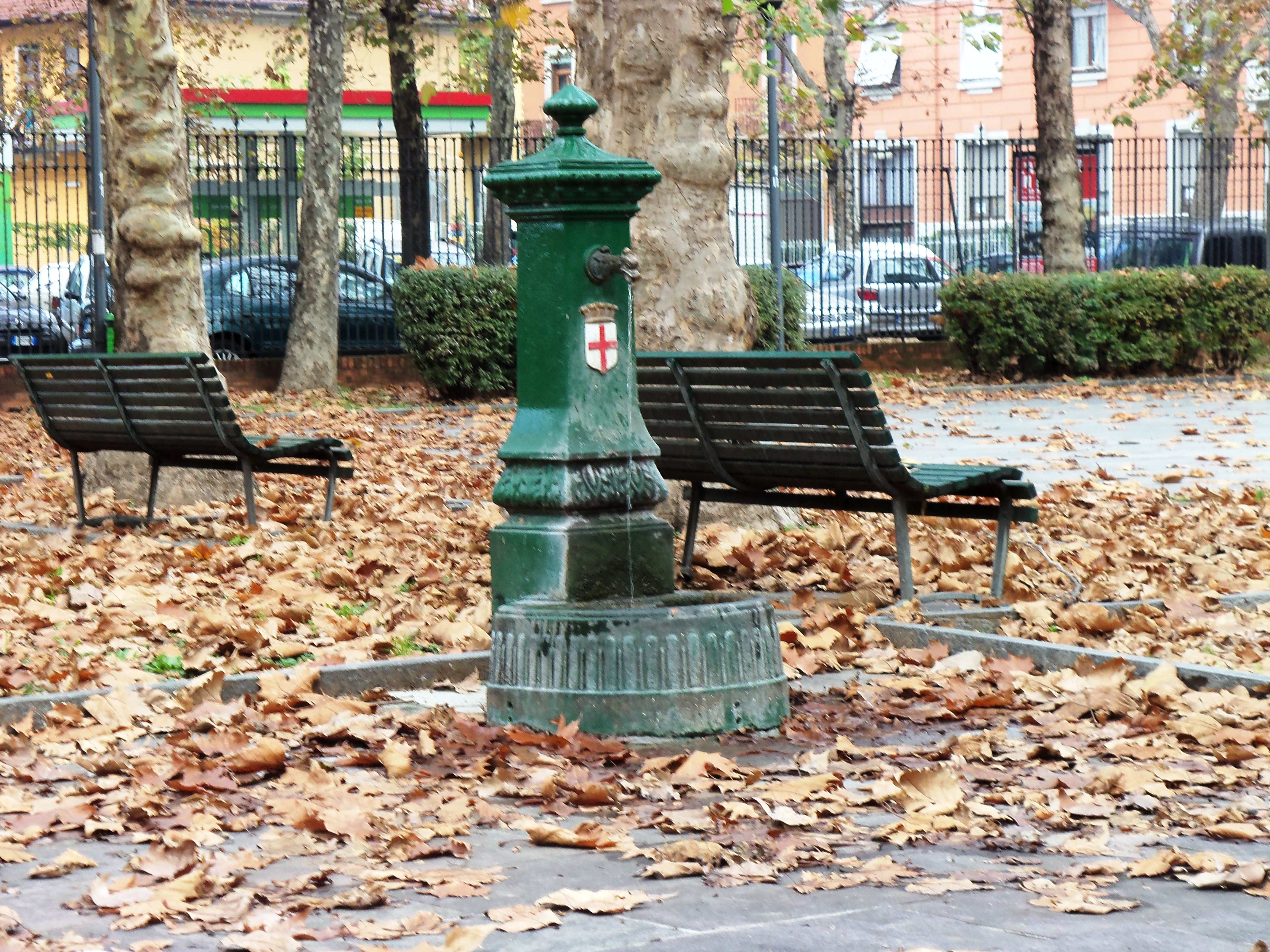 Milano, the classical small fountain in parks of the city. it's called "vedova" (widow, for never ending drip)